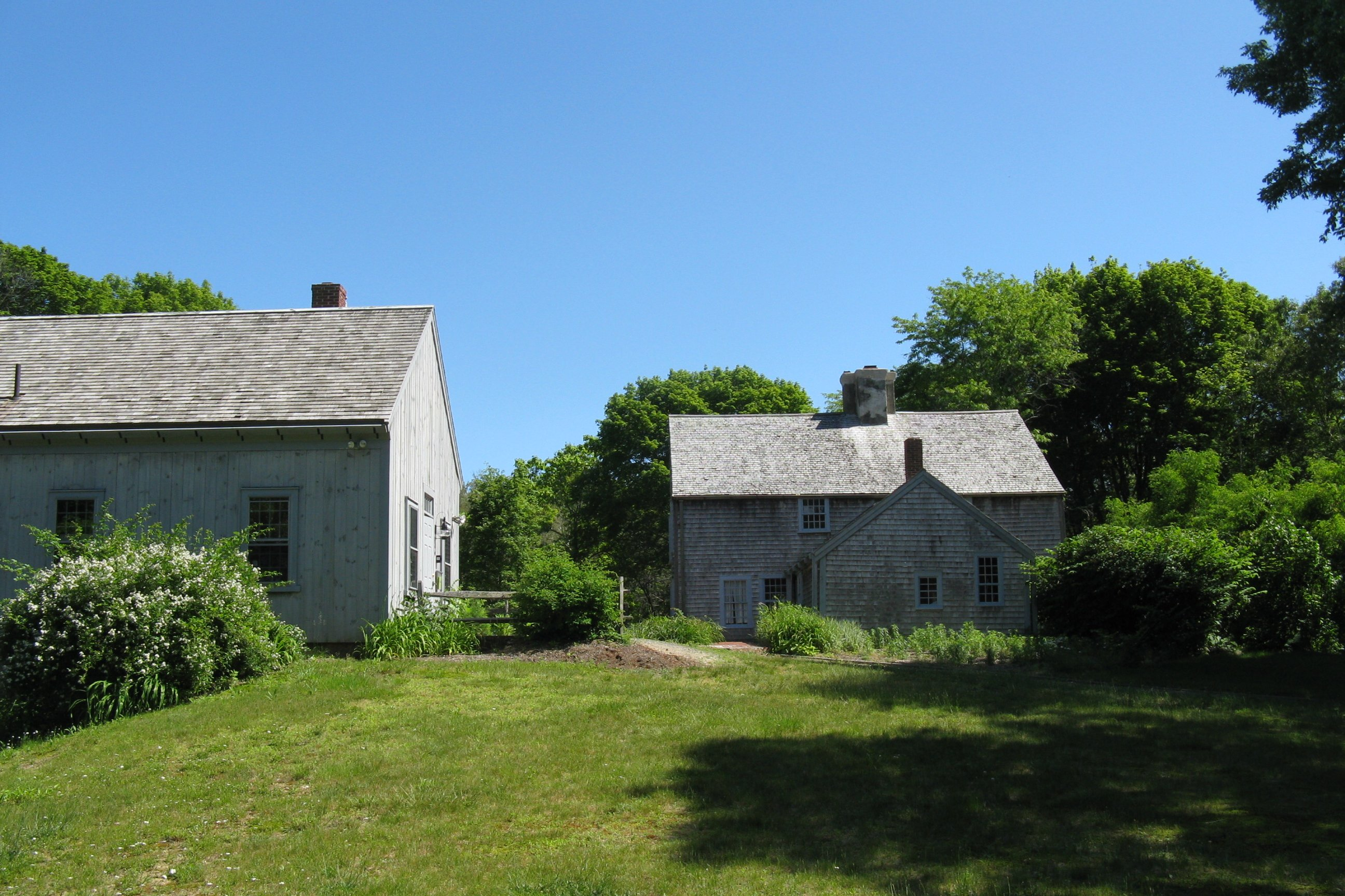 John Alden House, Duxbury Massachusetts